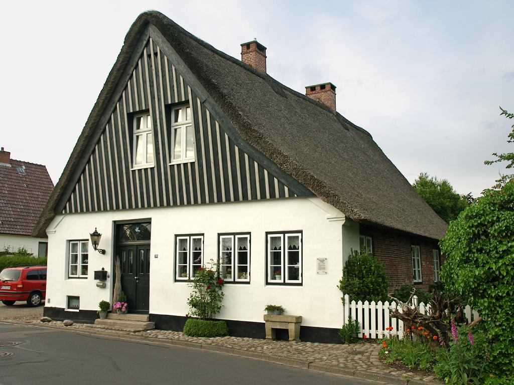 Uetersen (Schleswig-Holstein, Germany), small cottage Katzhagen 30, photo: 2008